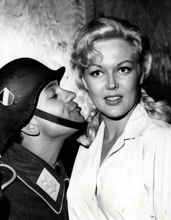 Photo of Robert Clary as Lebeau and Cynthia Lynn as Fräulein Helga from the telvision program Hogan's Heroes.